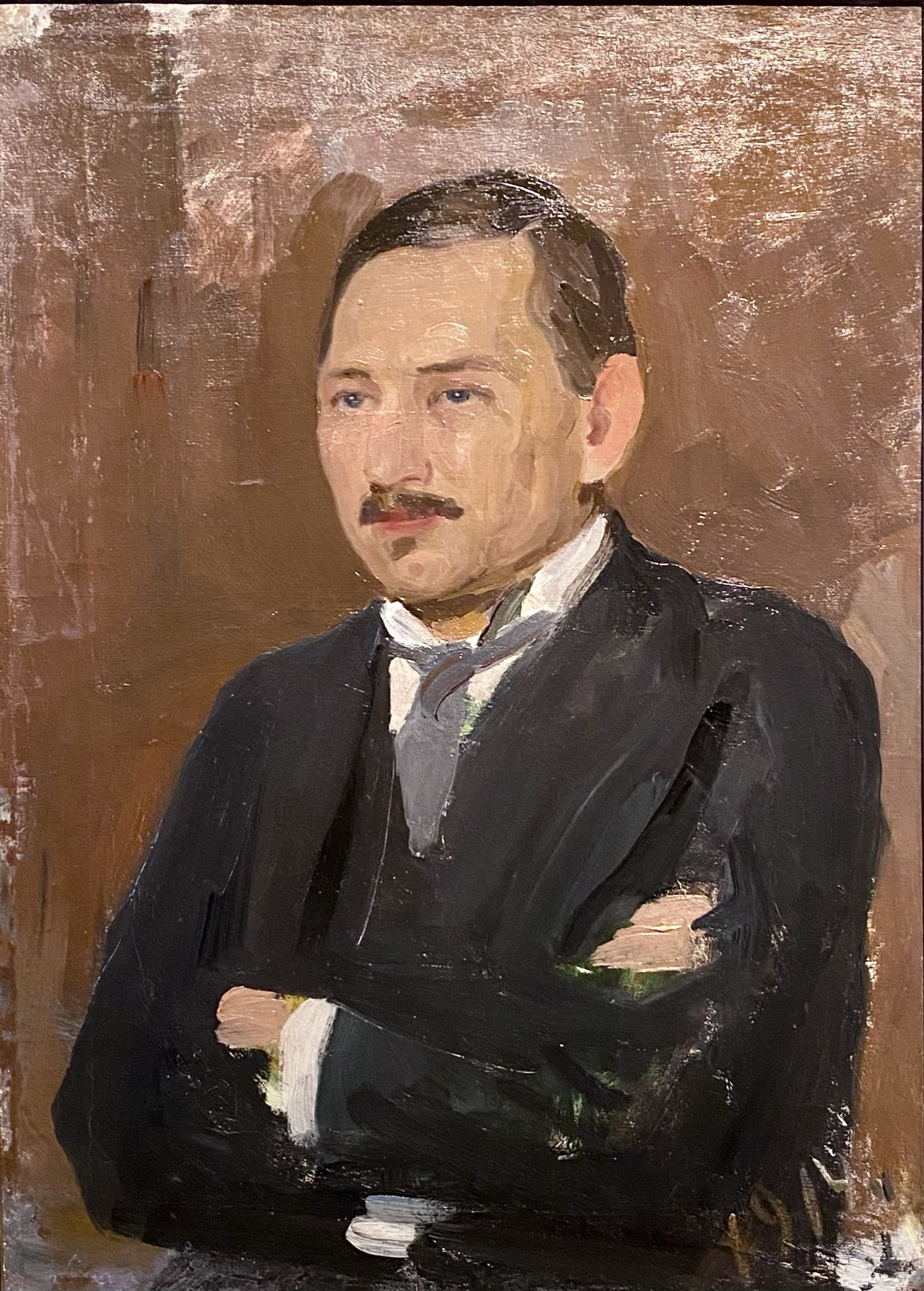 Painting "Portrait of Ivan Lutskevich" (1914 AD). Painter: Anikita Chatulev (1871−1941). Museum: the National Arts Museum of the Republic of Belarus